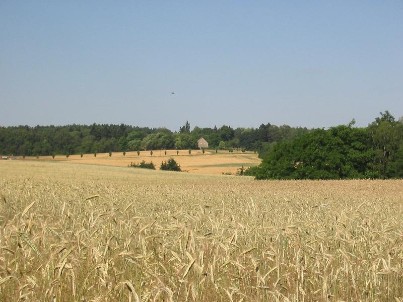 “Naturpark Hoher Fläming“ (nature reserve) in Brandenburg, district Potsdam-Mittelmark. Plain-wavy landscape between Preußnitz and Belzig.